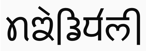 name of the lang